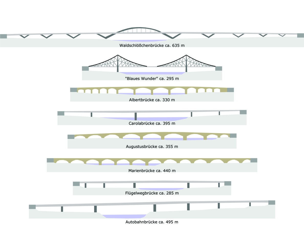 Elbe river west of planned Waldschlößchen-Bridge Dresden compared with other city bridges